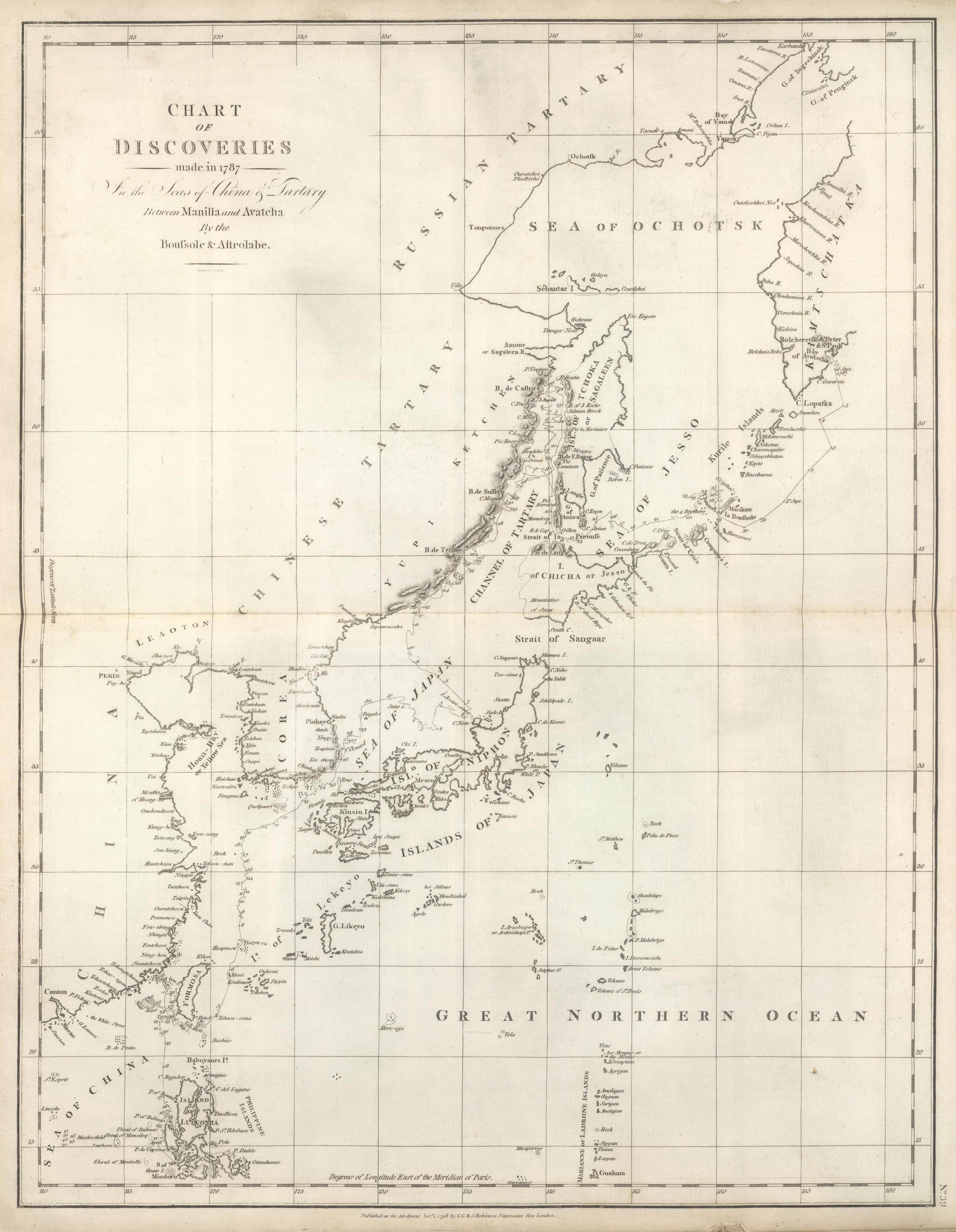 Discoveries made in 1787 In the Seas of China and Tartary between Manila and Avacha